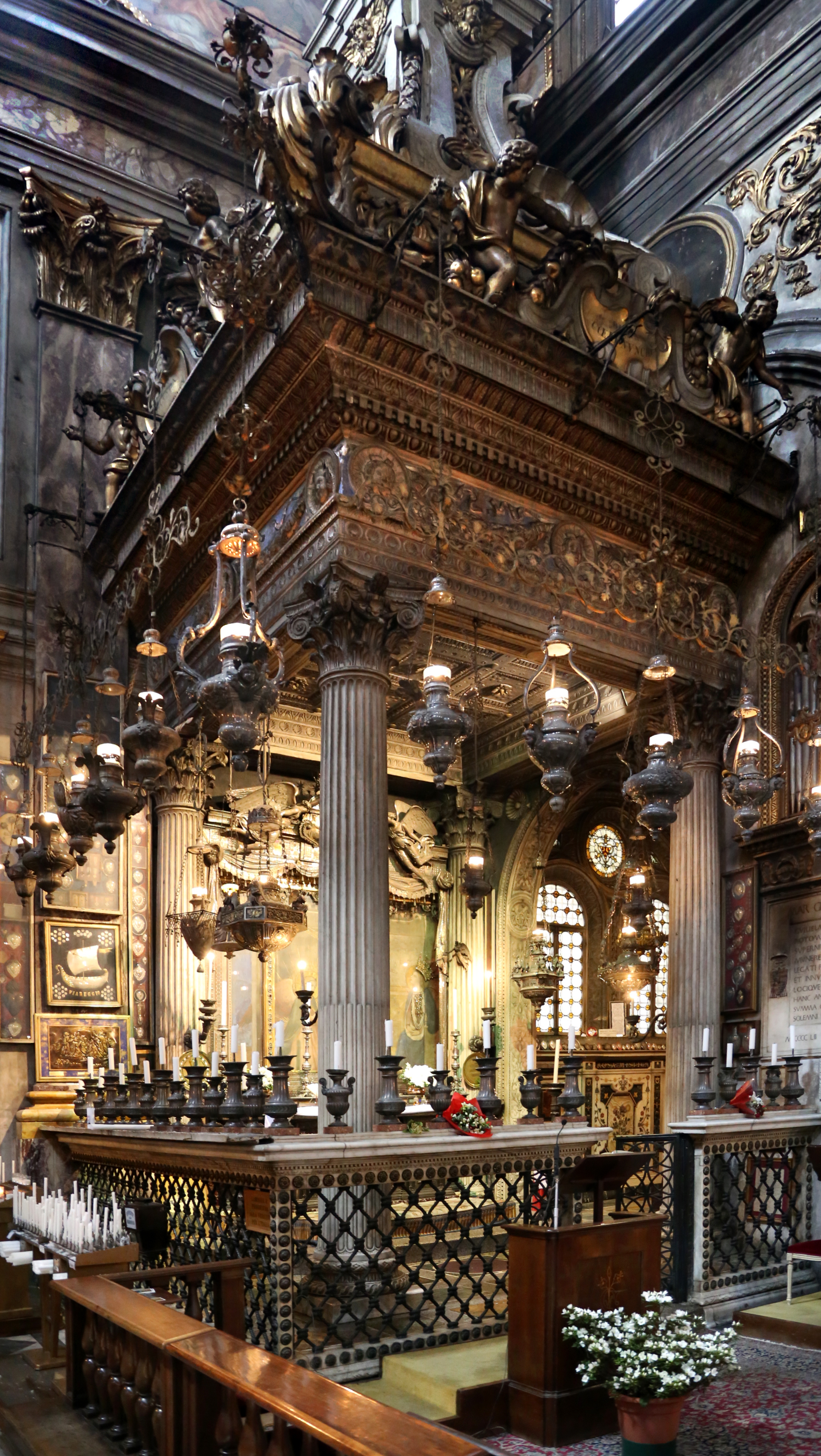 Santissima Annunziata (Florence) - Annunziata Chapel and its pertinent rooms